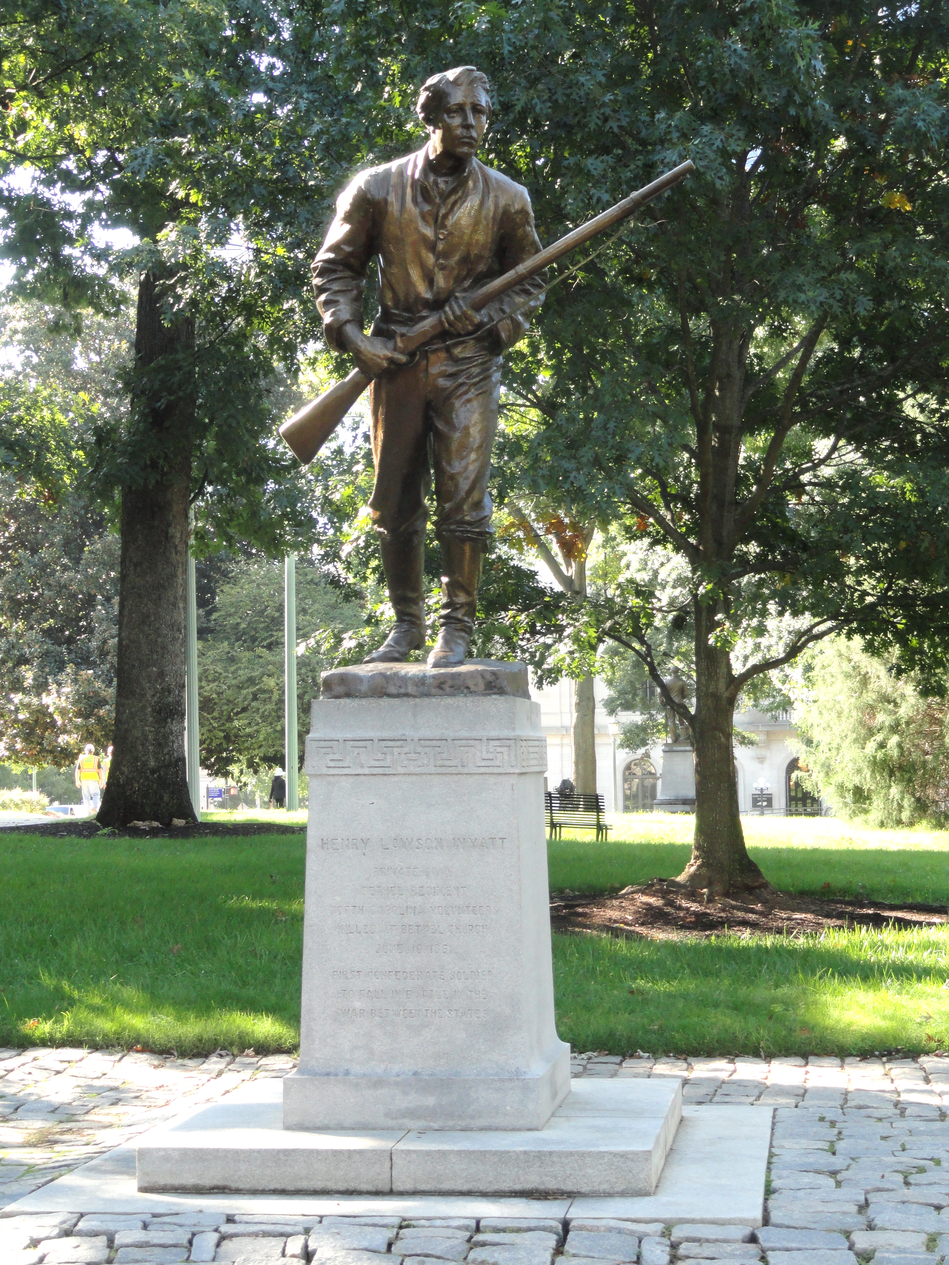 Memorial to Henry Lawson Wyatt by Gutzon Borglum (March 25, 1867 – March 6, 1941), dedicated June 10, 1912, and located on the grounds of the North Carolina State Capitol, Raleigh, North Carolina, USA. This image is in the public domain because the sculptor has been dead for more than 70 years.